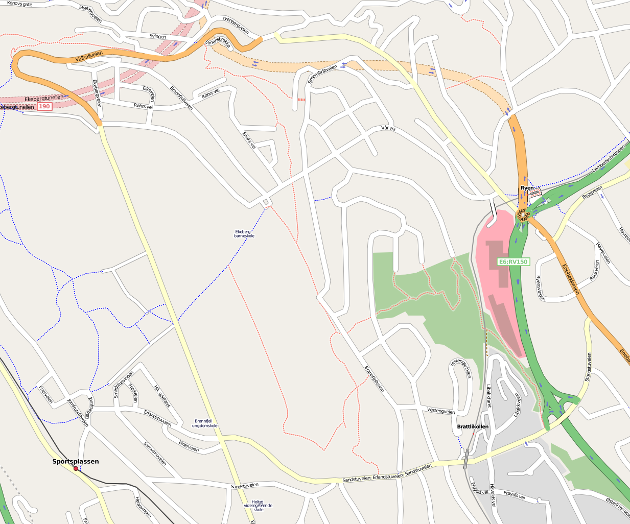 The Street Brannfjellveien in Oslo, Norway